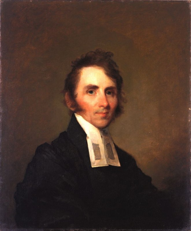 Reverend William Ellery Channing by Gilbert Charles Stuart, c. 1815, oil on canvas, De Young Museum